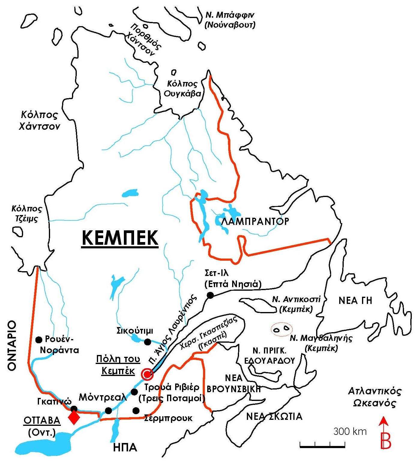 Map of Quebec in Greek